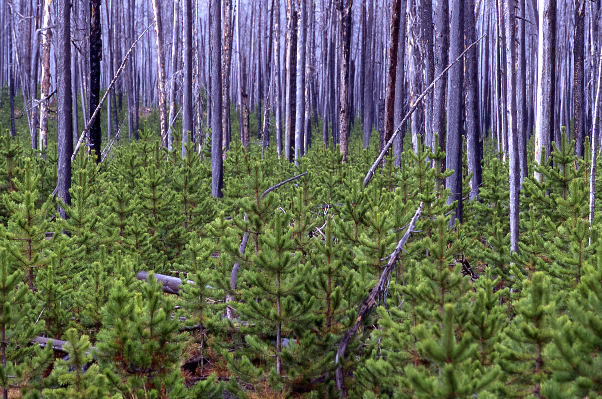 10 years after the 1988 Yellowstone fires, Lodgepole pine forests reestablish themselves amongst still standing dead trees.